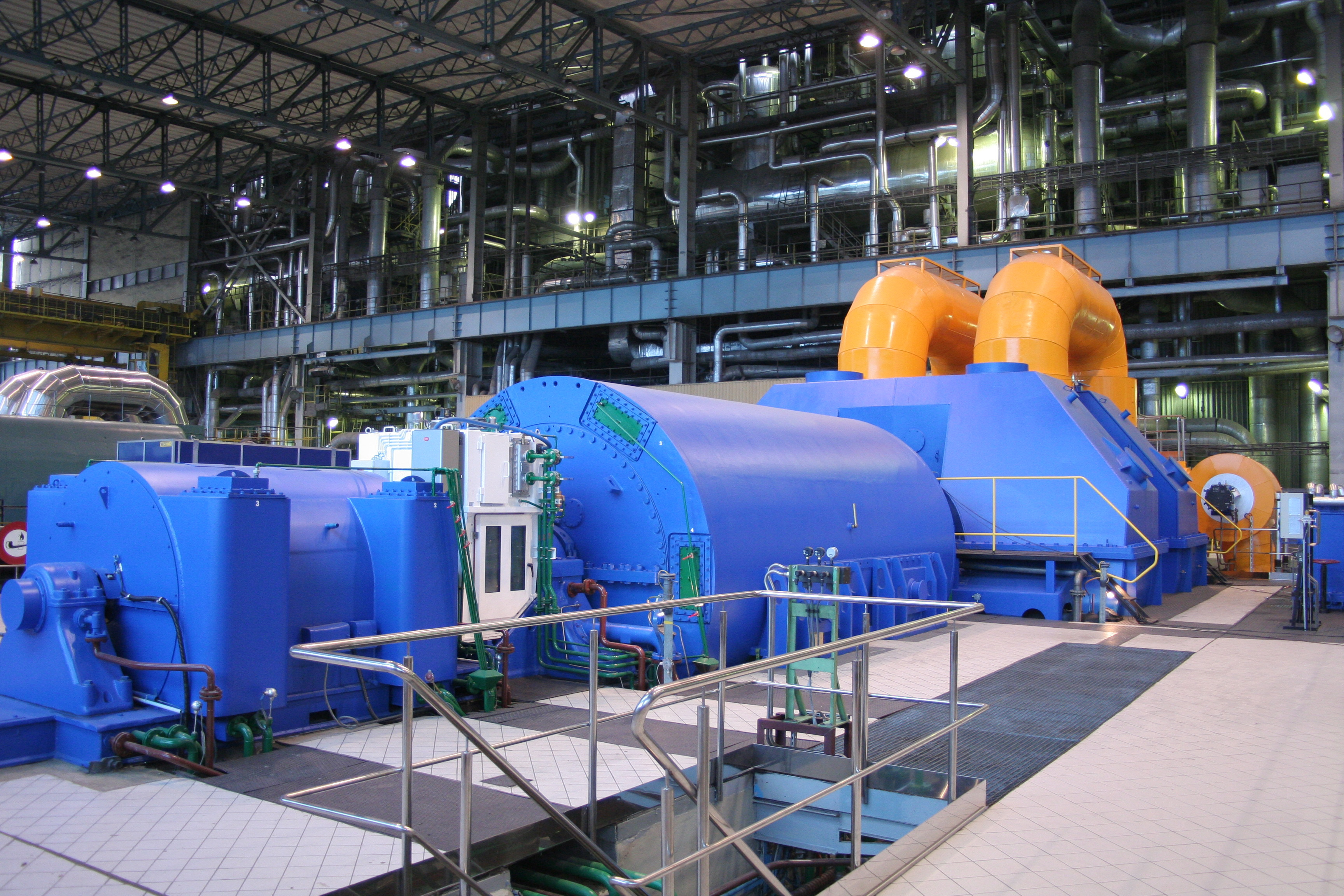 Dolna Odra Power Plant, Poland